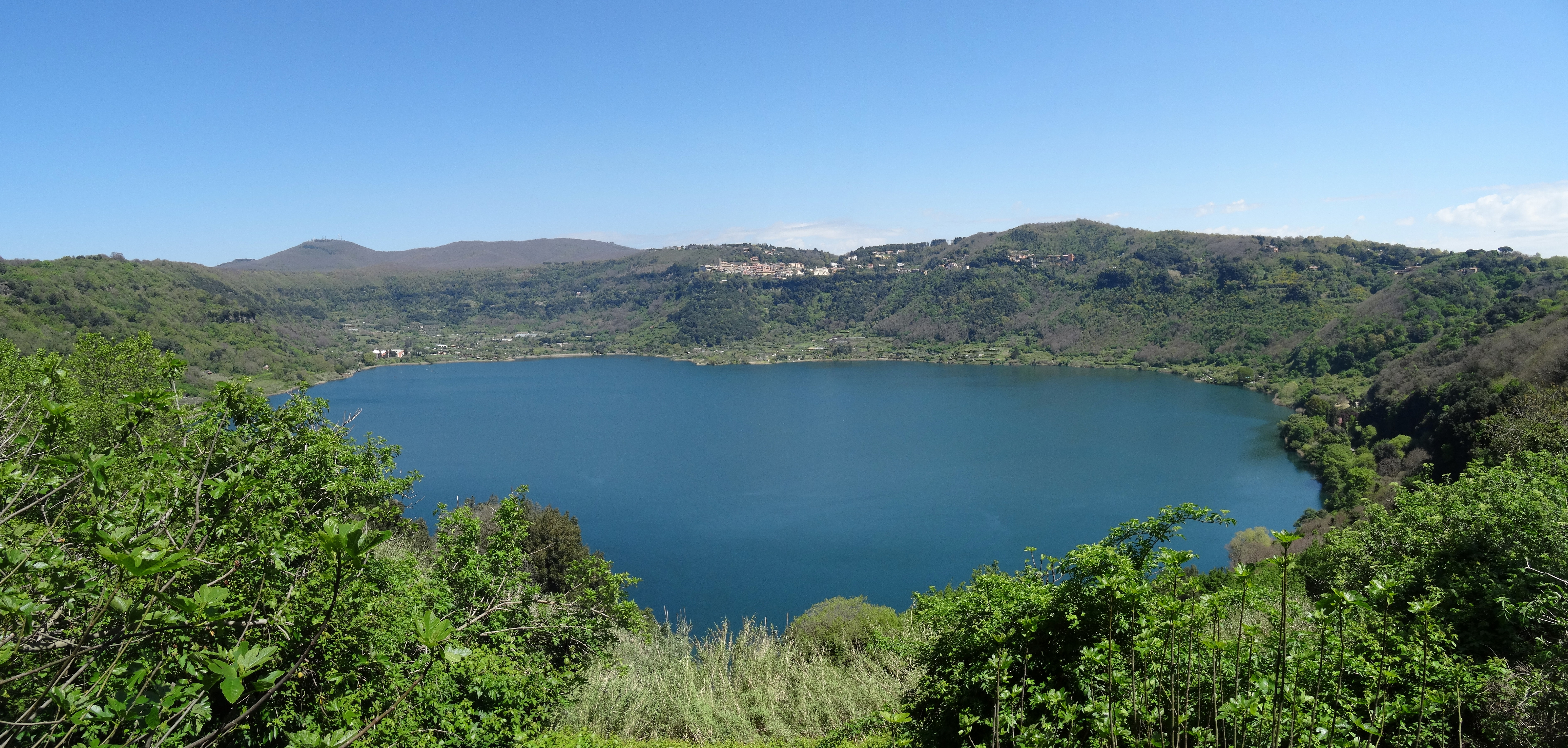 Panoramica del Lago di Nemi